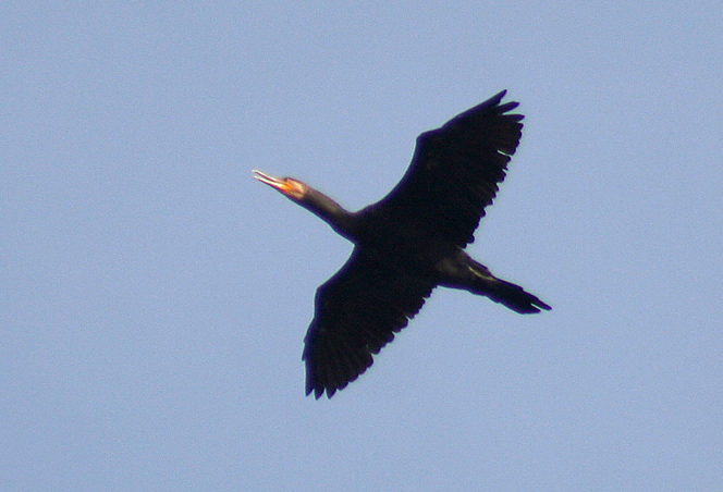 Great Cormorant Phalacrocorax carbo in Kolkata, West Bengal, India.